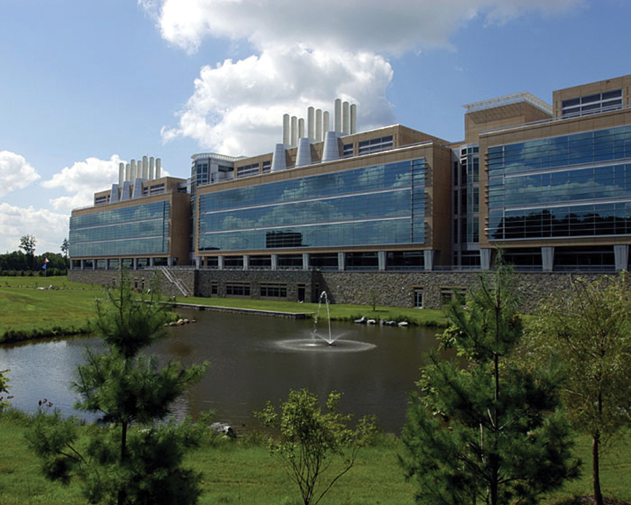 FBI Laboratory.